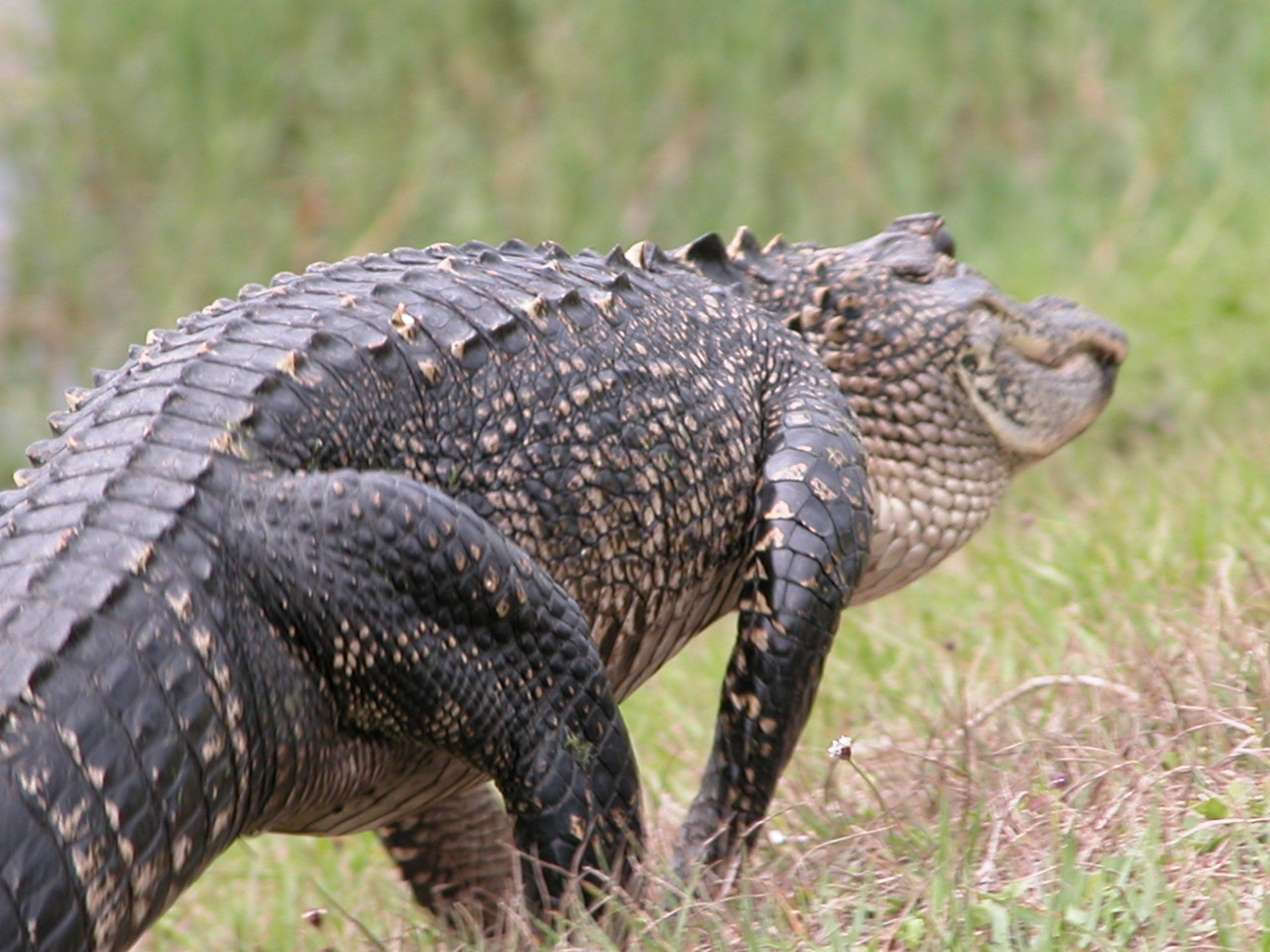 A mature American Alligator (Alligator mississippiensis) walking towards the nearest watering hole in full view of vehicular traffic in Merritt Island, Florida.